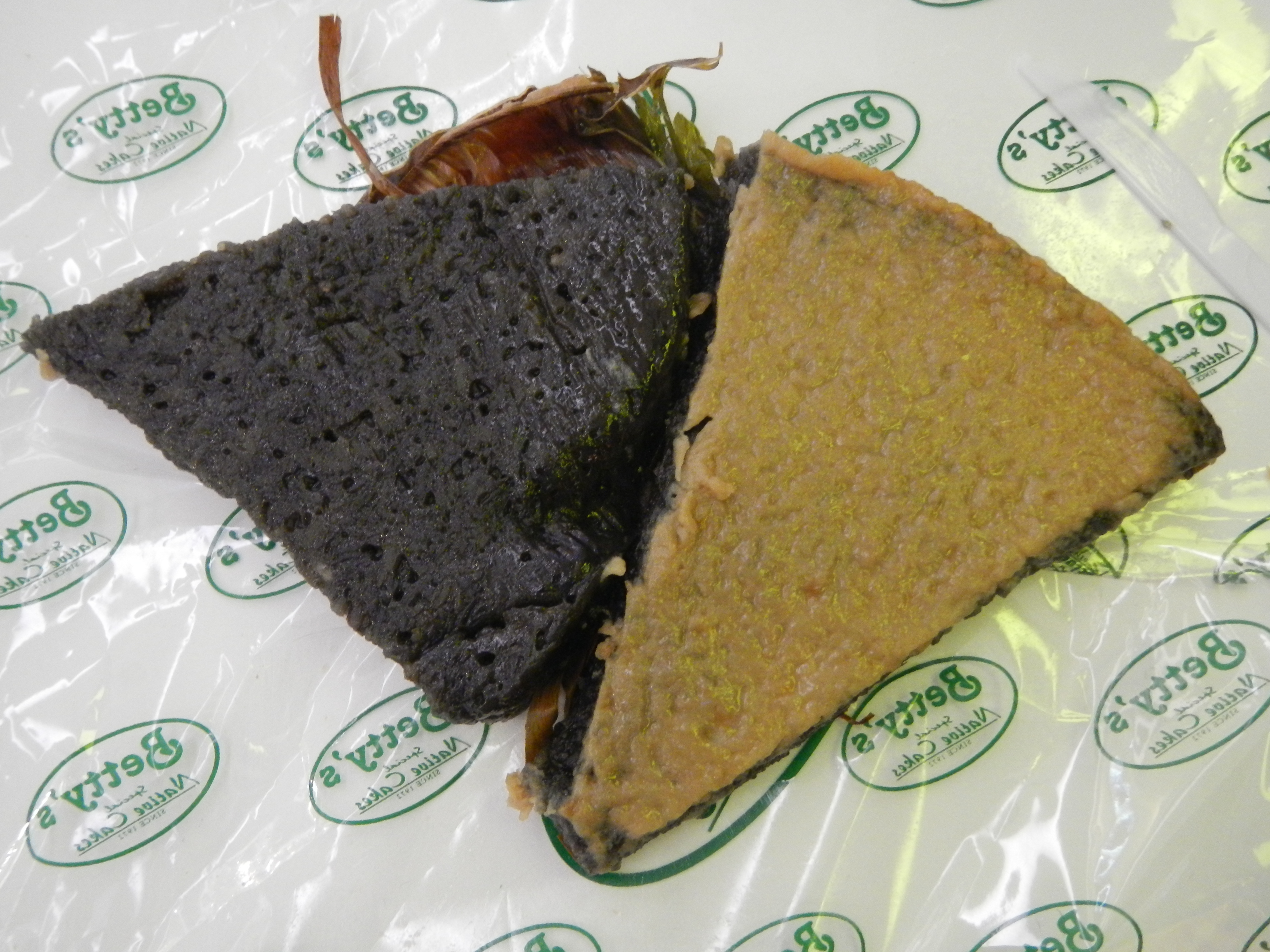 Duman (Tarlac, Philippines) Duman[1] Duman is made of malagkit rice (lakatan malutu) that is beaten from its husks and toasted in a clay oven. To the rest of the country, it may just be plain green rice or even un-popped pinipig. But it is a prized seasonal food that can be found during the Christmas season, after the rice harvest in November. The younger kernels of rice that don’t fall off the husks are colored green. These husks are beaten against a hard surface until they fall off. They are then soaked in water, cooked for 30 minutes and then pounded. This rigorous process helps release the sweet oils and nuttiness of the rice.